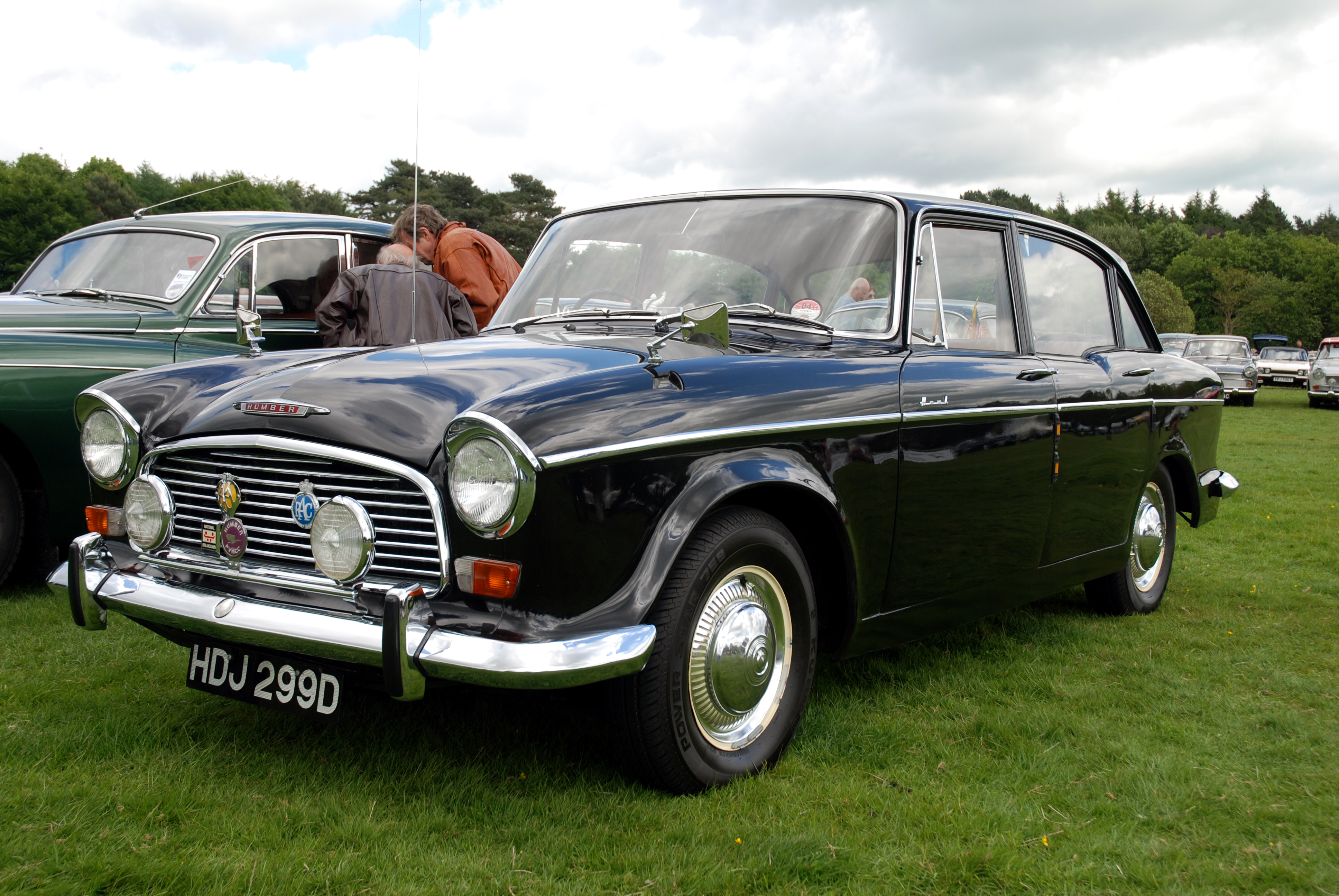 Capesthorne Hall,May 2010